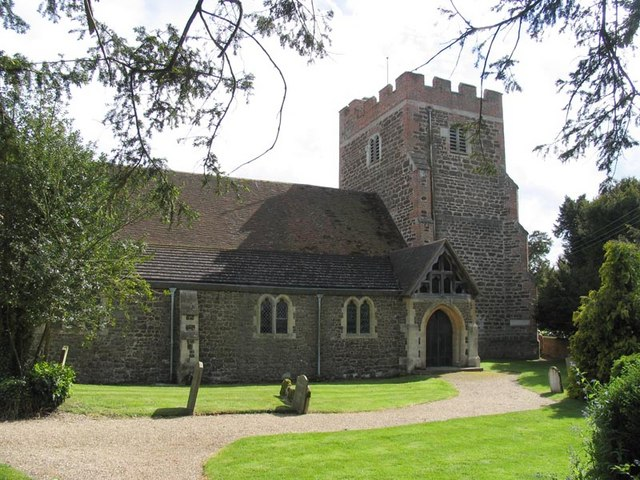 St Michael, Heckfield, Hants